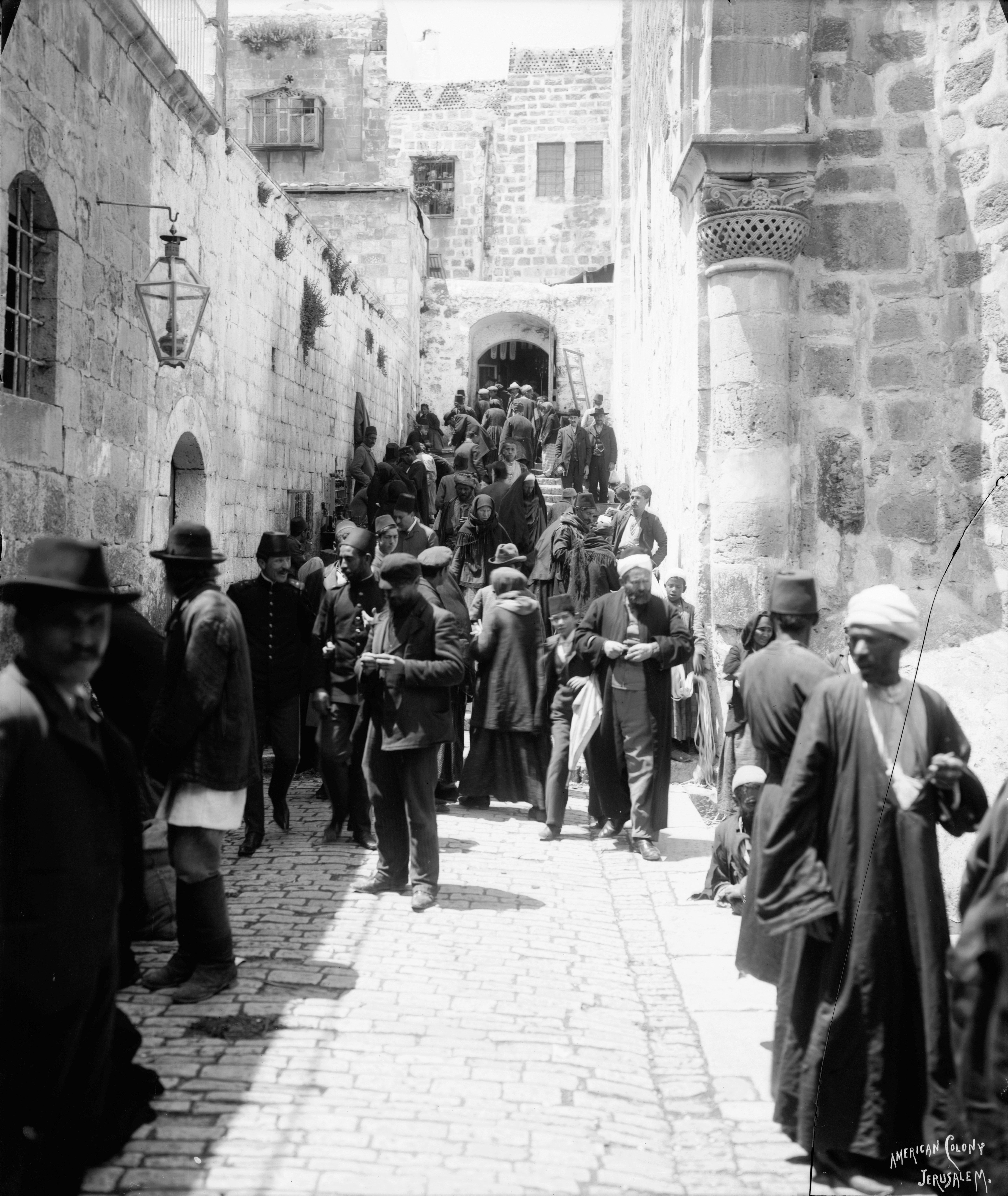 Jerusalem (El-Kouds). Steps leading to the Church of the Holy Sepulchre / American Colony, Jerusalem. Side entrance to the church of the Holy Sepulcher in Jerusalem.